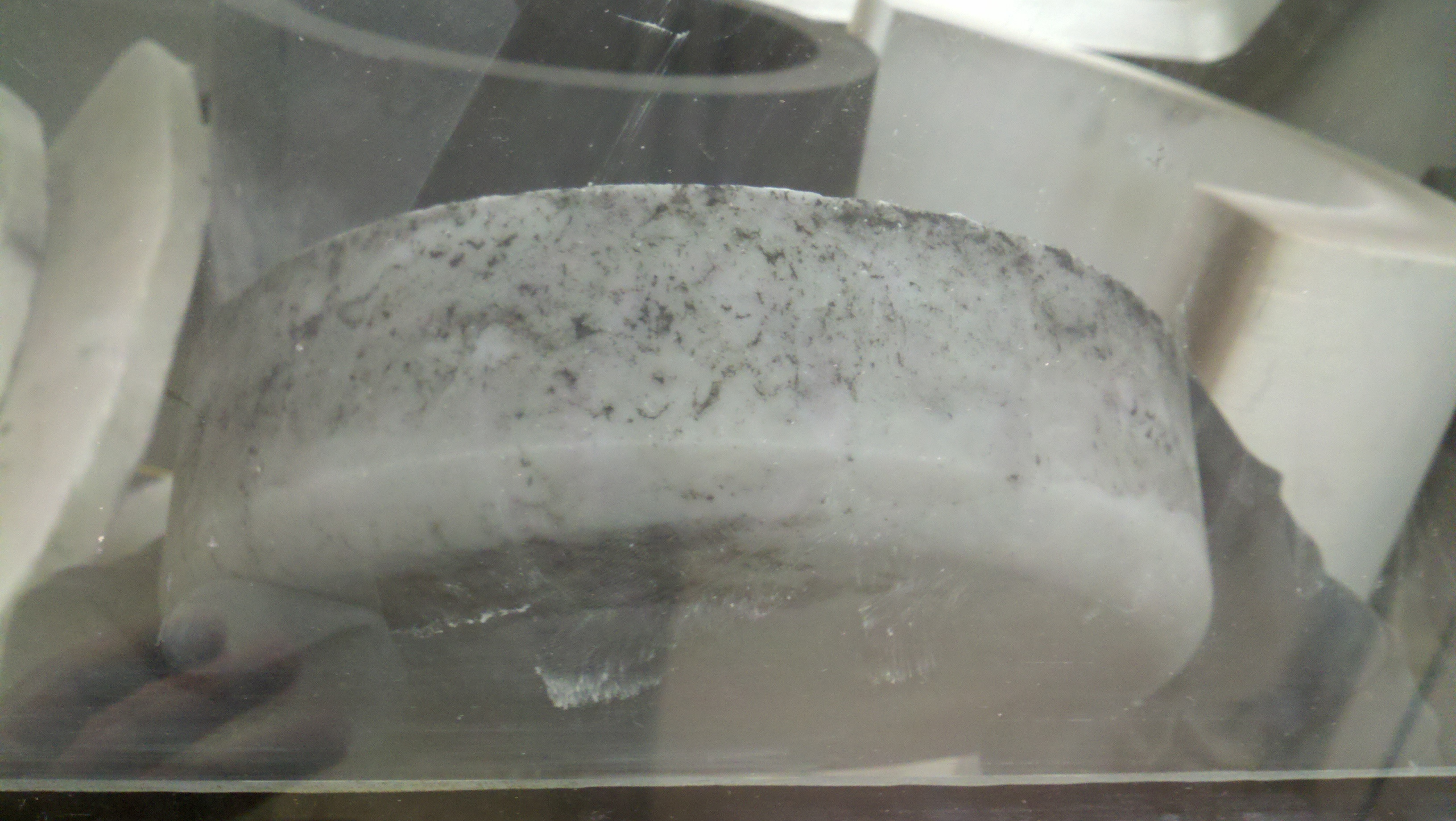 A picture of solid FLiNaK salt at room temperature held inside of a glove box. The salt is mostly white with graphite specks.